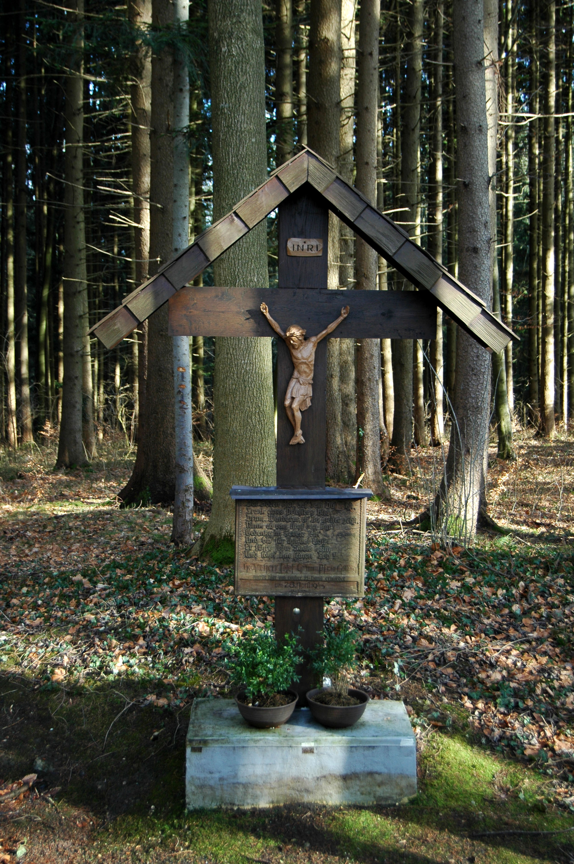 Pfarrer Grimm Memorial near Unterleiten (Bruckmuehl)